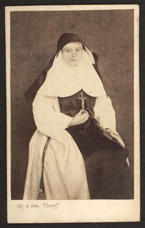 A photograph of a member of the Sisters of Charity of Jesus and Mary (ca. 1900)